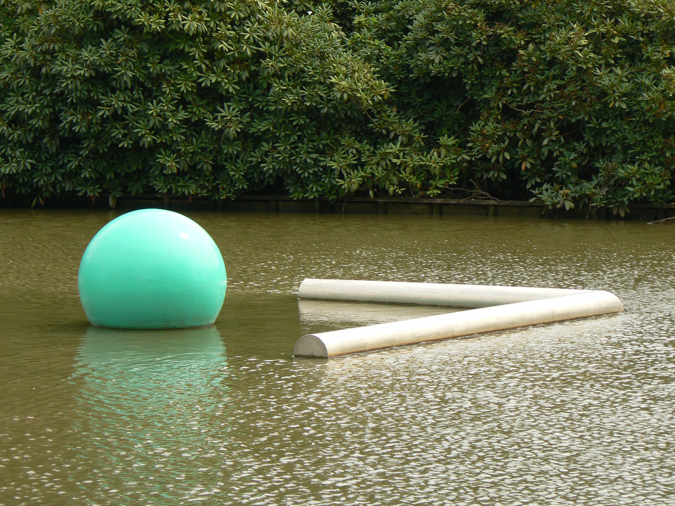 Sculpture: Ruimtelijk kubistische tekening (1989) by Bert Meinen in Gramsbergen (originally in Hardenberg)/The Netherlands